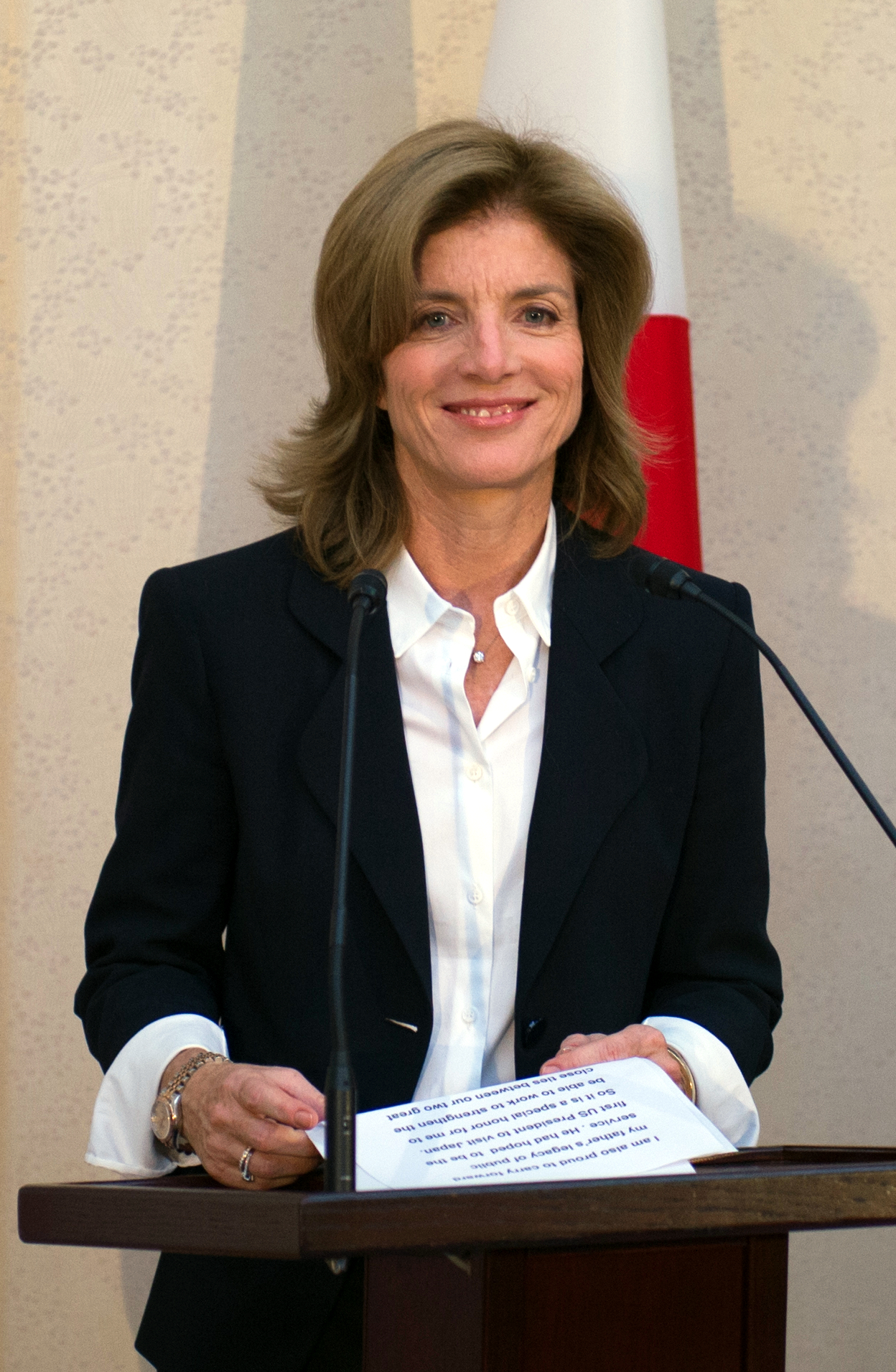 Caroline Kennedy, next Ambassador to Japan, made her first statement after arriving at the Narita International Airport in Narita City, Chiba Prefecture on November 15, 2013.